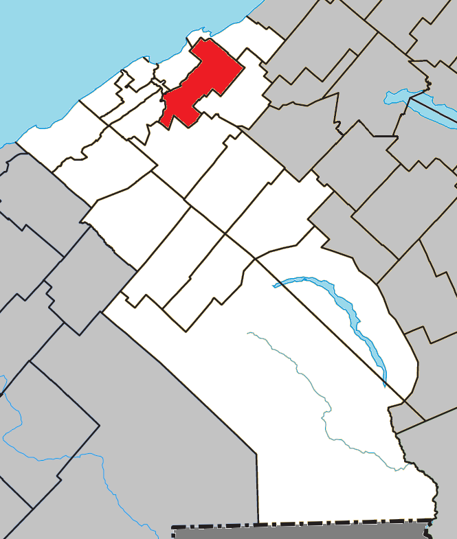 Location of Saint-Octave-de-Métis, Quebec within La Mitis Regional County Municipality.